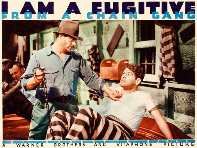 Lobby card for the American pre-Code crime-drama film I Am a Fugitive from a Chain Gang (1932)